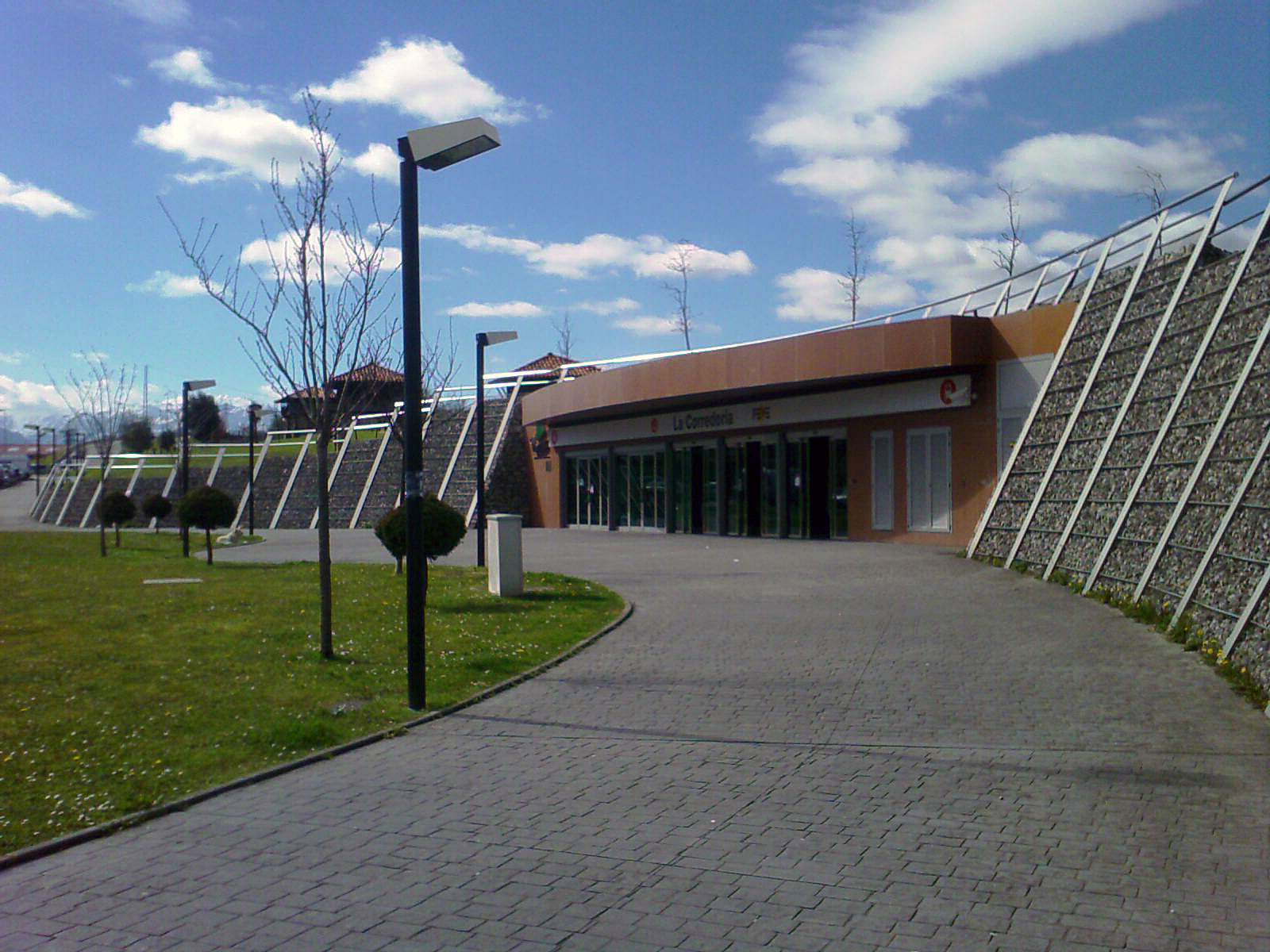 Access to La Corredoria railway station (Oviedo, Asturias, Spain)